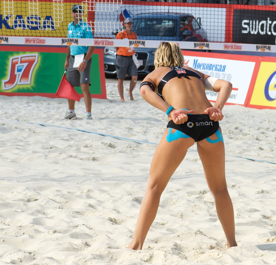 Laura Ludwig at the Grand Slam Moscow 2011